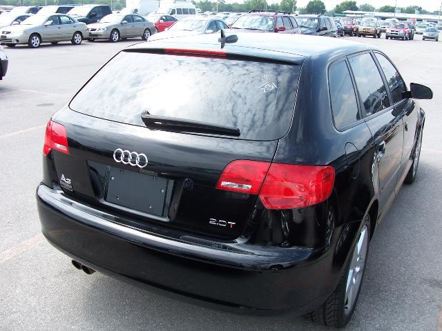 Audi A3 Sportback